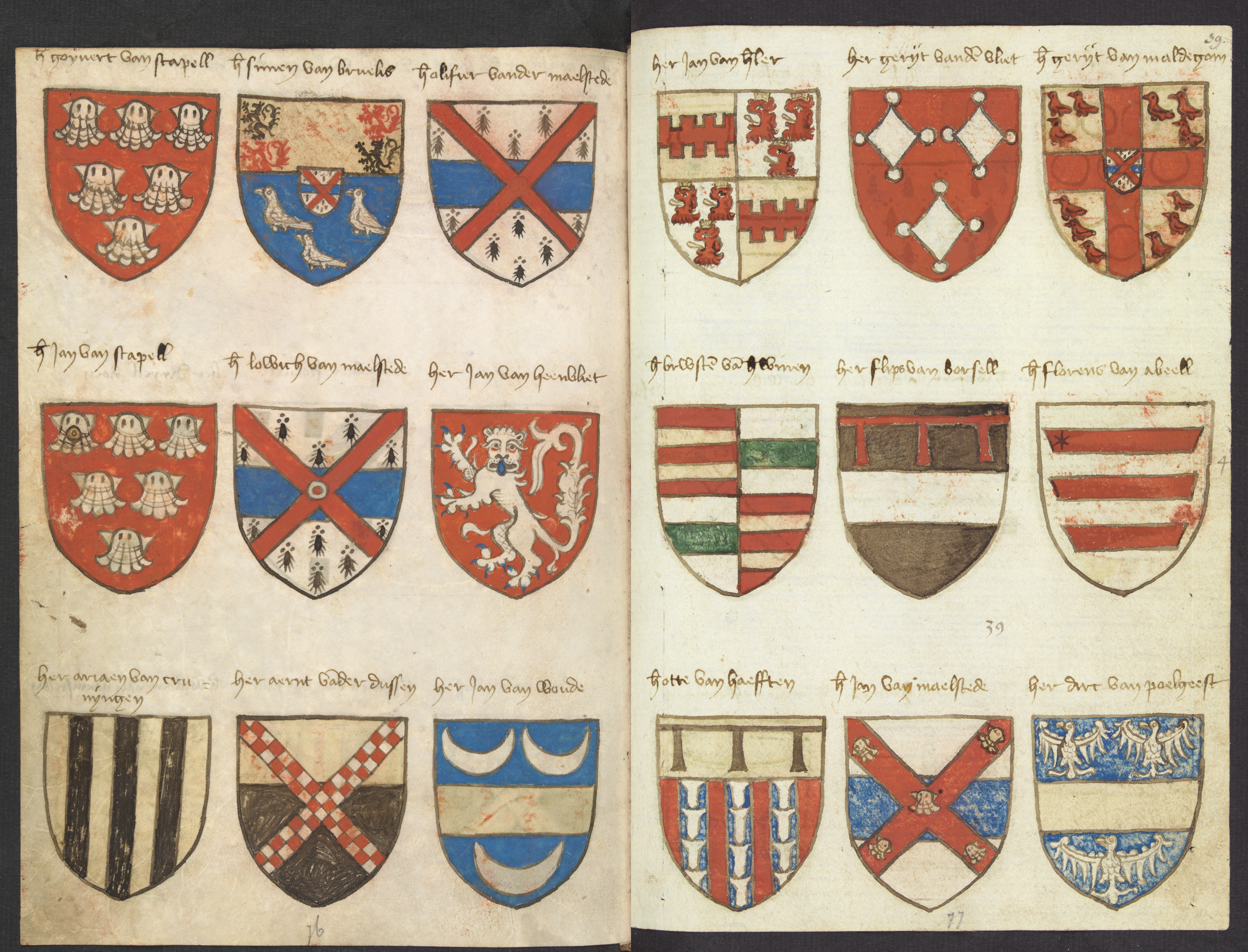 Lefthand side folio 038v; righthand side folio 039r from the Beyeren armorial / Wapenboek Beyeren